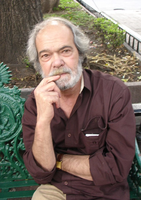 Picture of Writer Felix Luis Viera